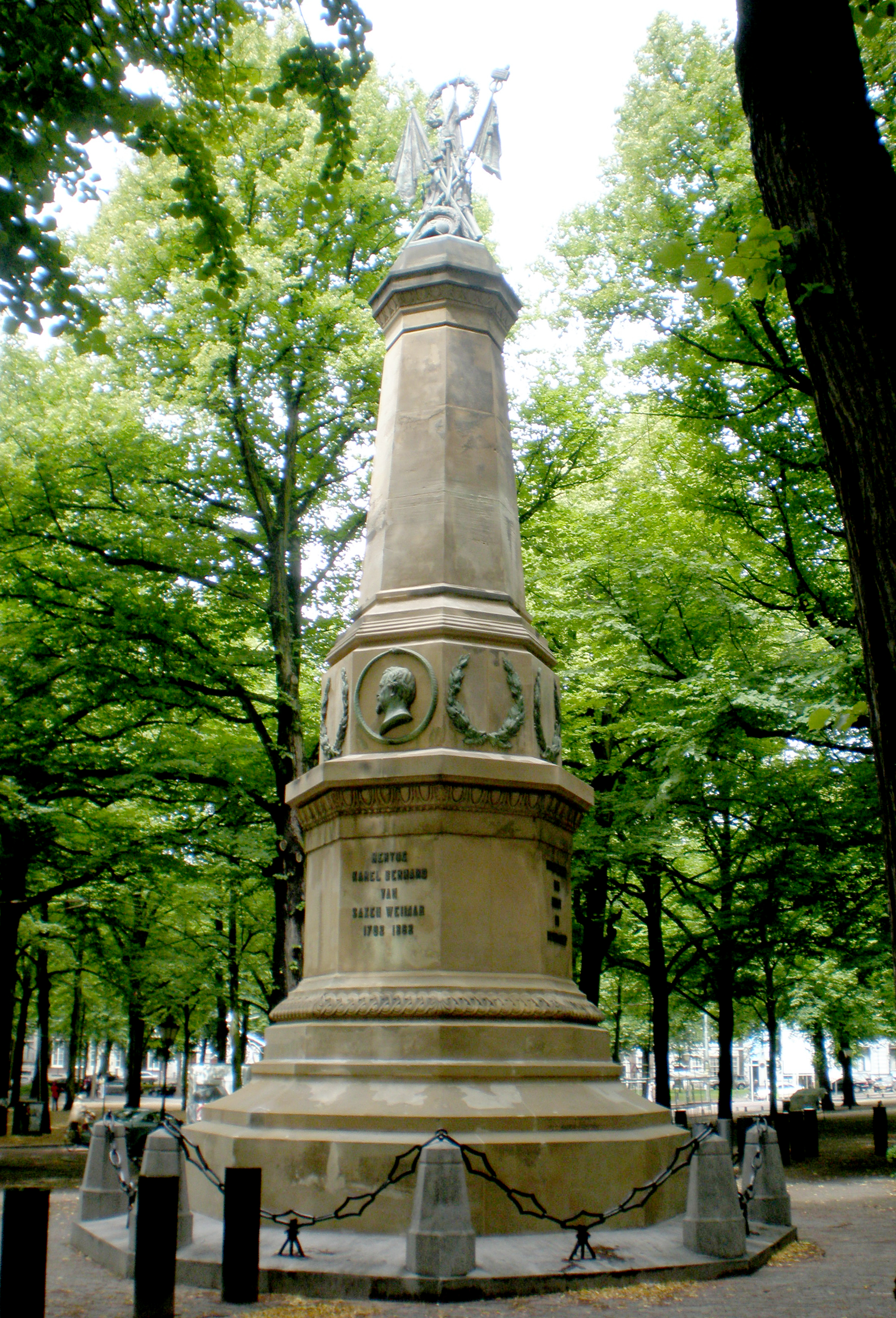 Statue in honour of the General Karel Bernhard-Hertog van Saksen Weimar und Eisenach. Made in 1866 by sculptorer Johan Phillip Koelman and architect H.P. Vogel. Placed at the Lange Voorhout.